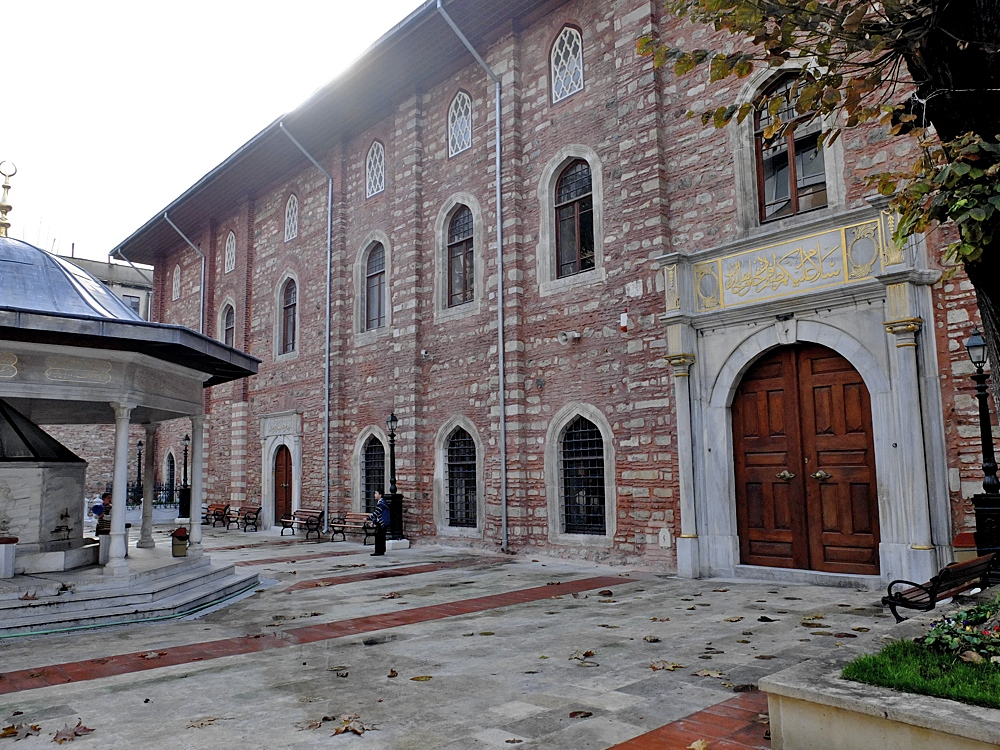 Arap Camii, Istanbul, as of Dec. 1st, 2012